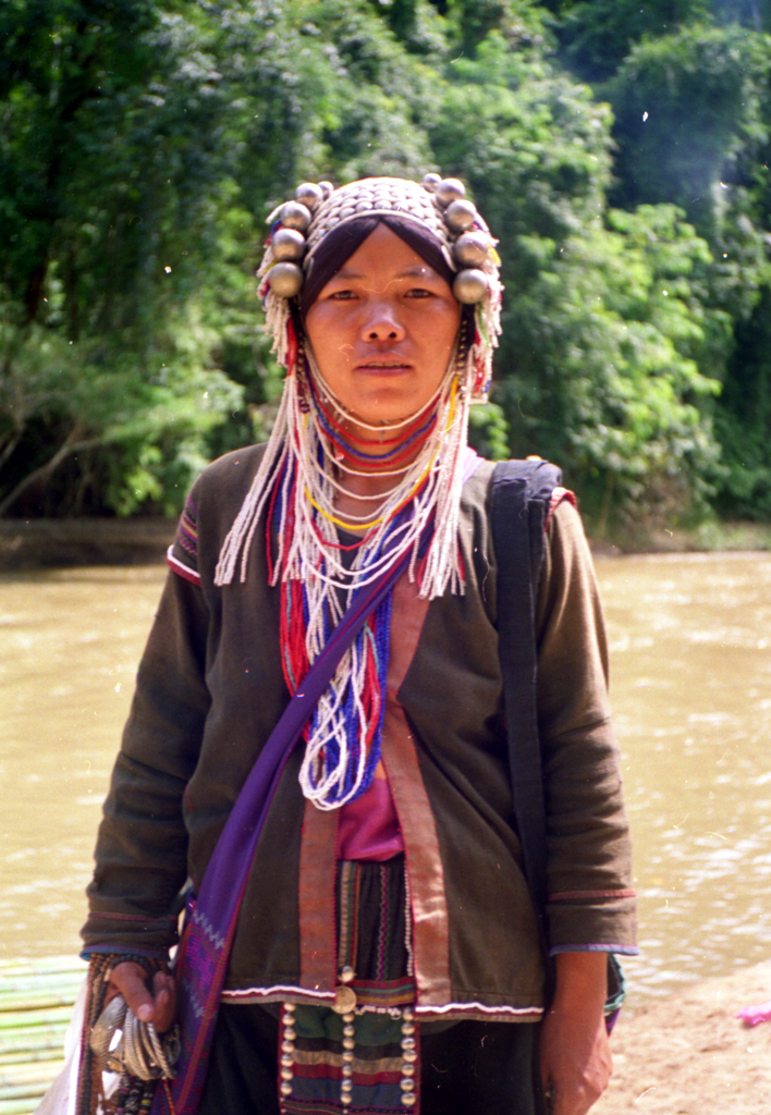 River Woman in Northern Thailand.